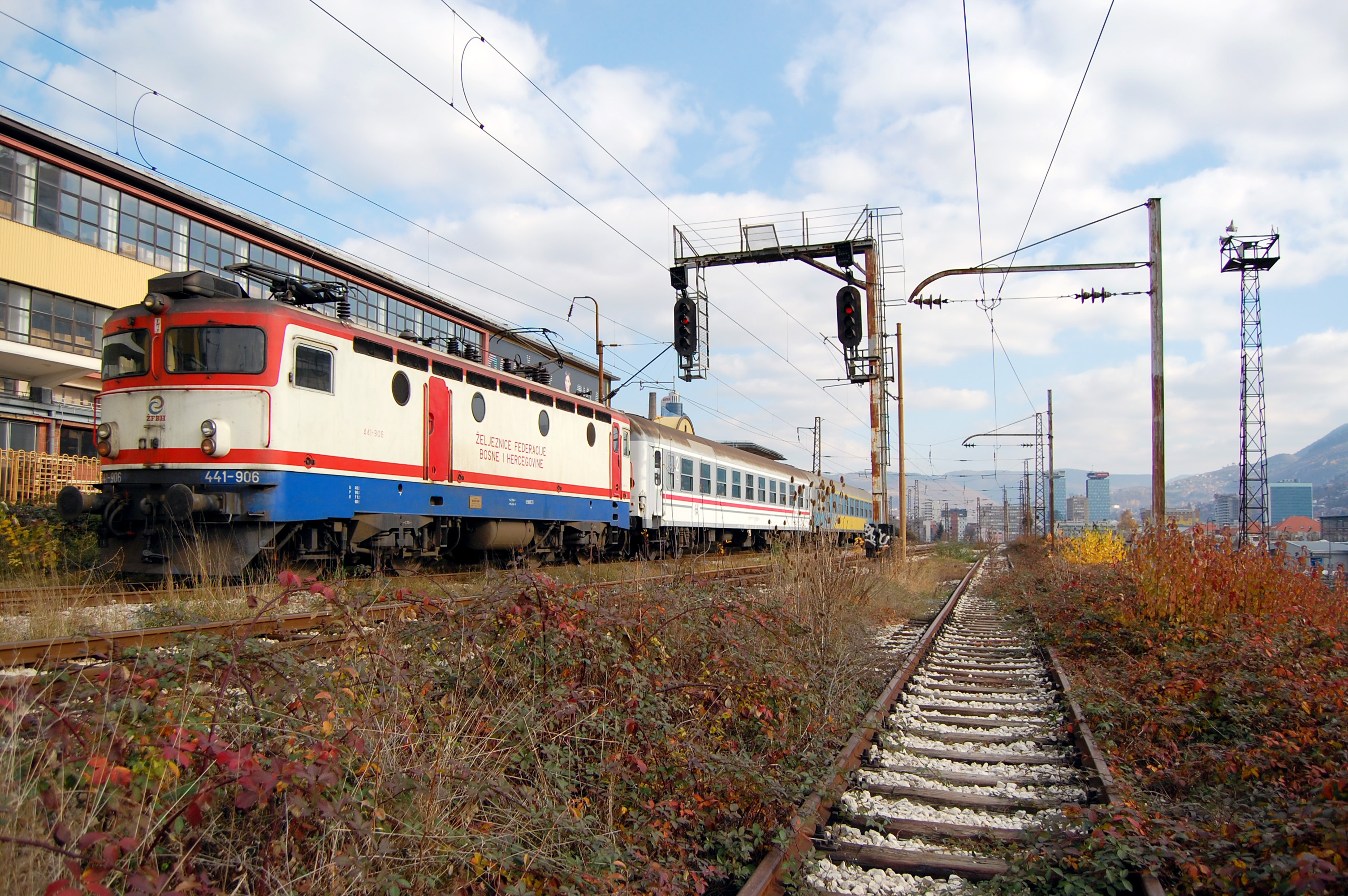 ŽFBH 441-906 at Sarajevo, November 12, 2011